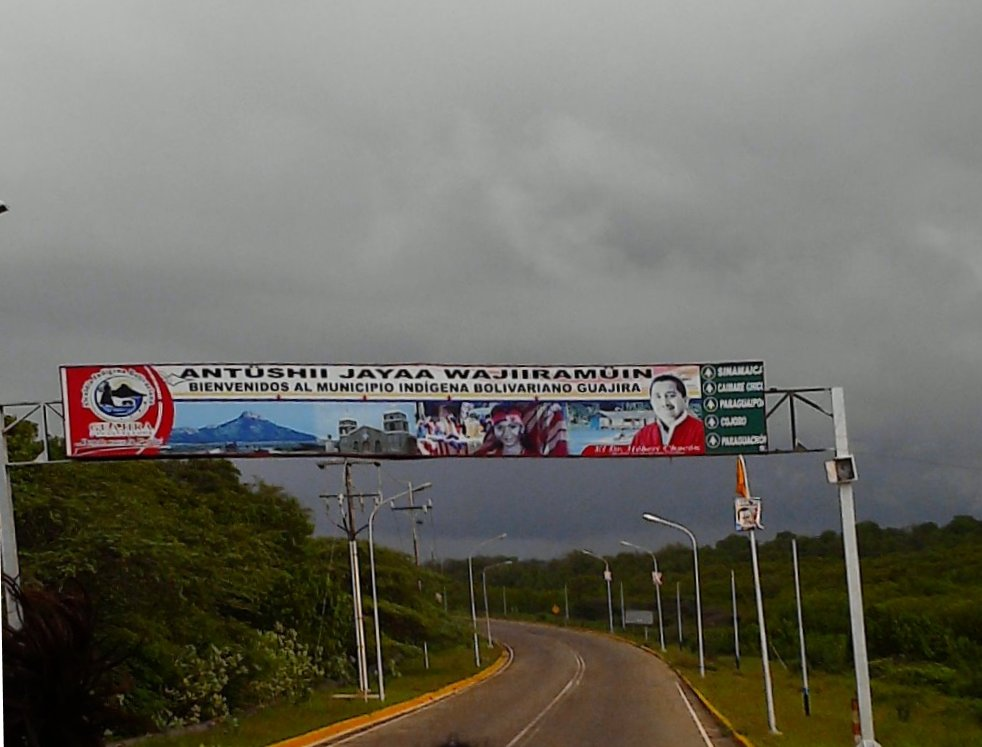 Welcome sign to La Guajira Autonomous Municipality in Zulia, Venezuela